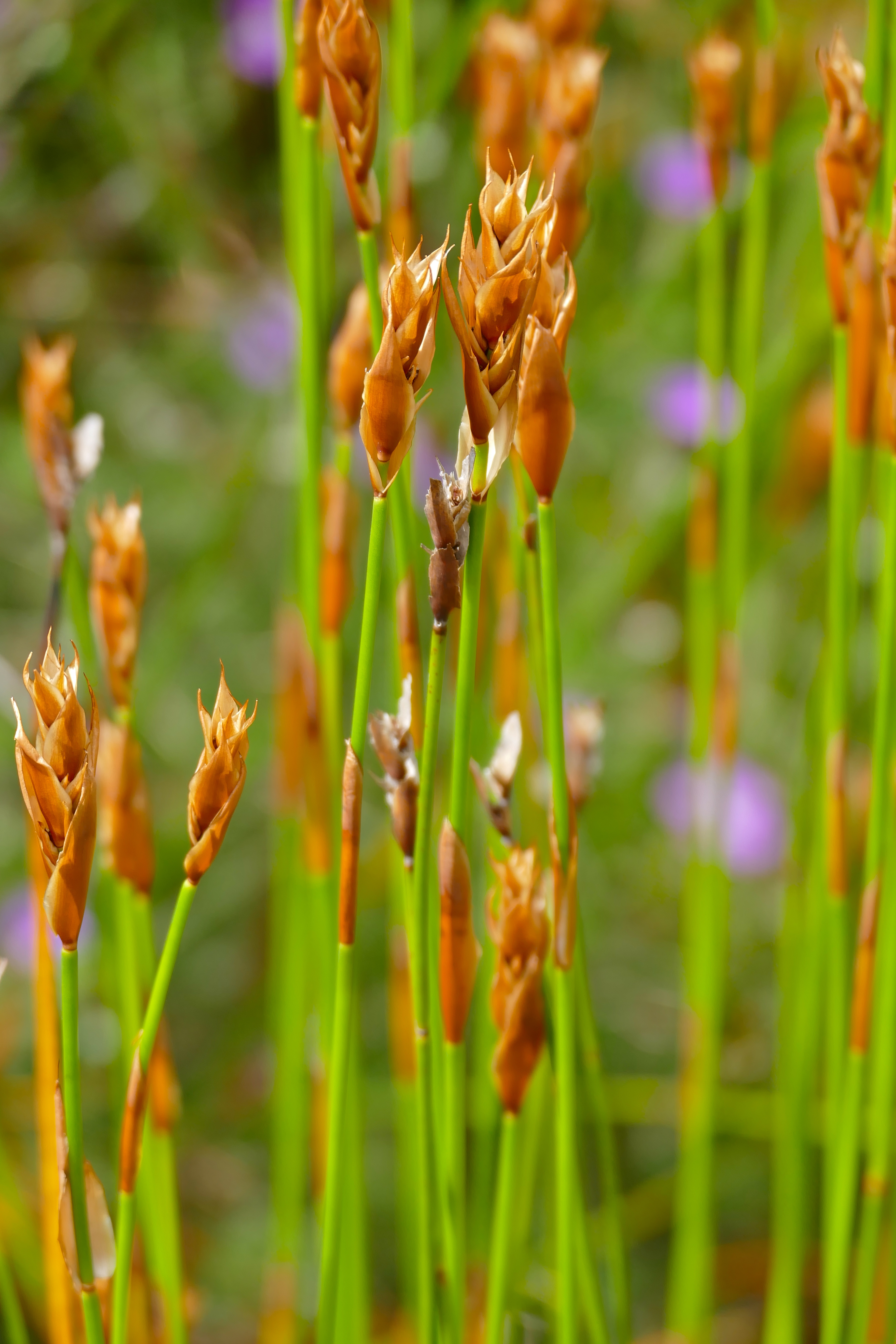 Kirstenbosch National Botanical Garden, Cape Town, Western Cape, SOUTH AFRICA